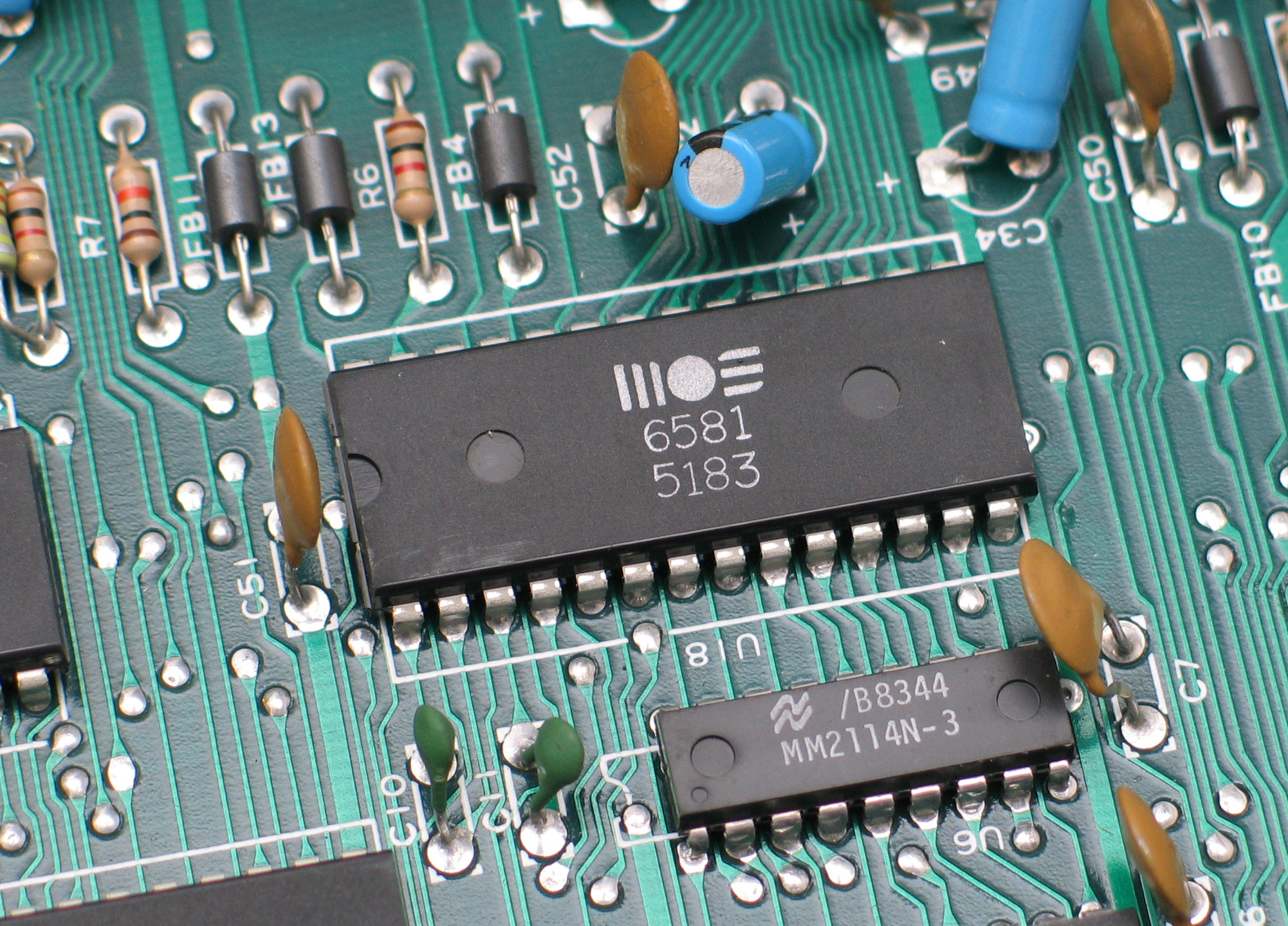 A MOS 6581 sound chip from a Commodore 64 main board